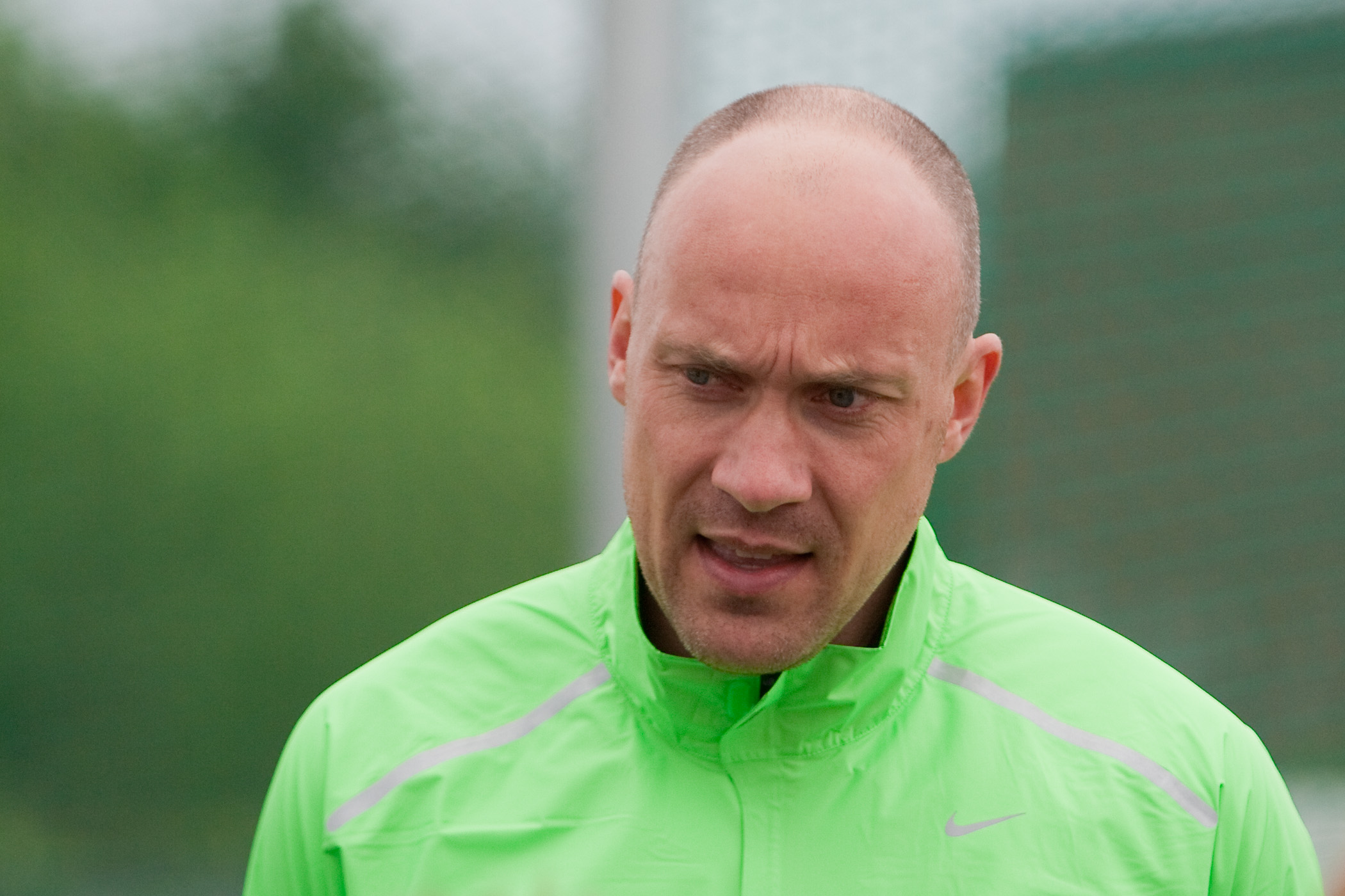 Vebjørn Rodal, olympisk mester og OL-rekordholder på 800-meter, gjestet den 2. juni 2010 Klæbu IL som gjestetrener for 2 basistreningsøkter, en for barn og en for ungdommer. Se her for flere bilder. Vebjørn Rodal, olympic champion and olympic record holder on the 800 meter for men, visited on 2 June 2010 Klæbu outside Trondheim, Norway, as a guest coach. The license on this photo is Creative Commons (CC-BY-SA). If you use this picture, remember to give credit according to the license (